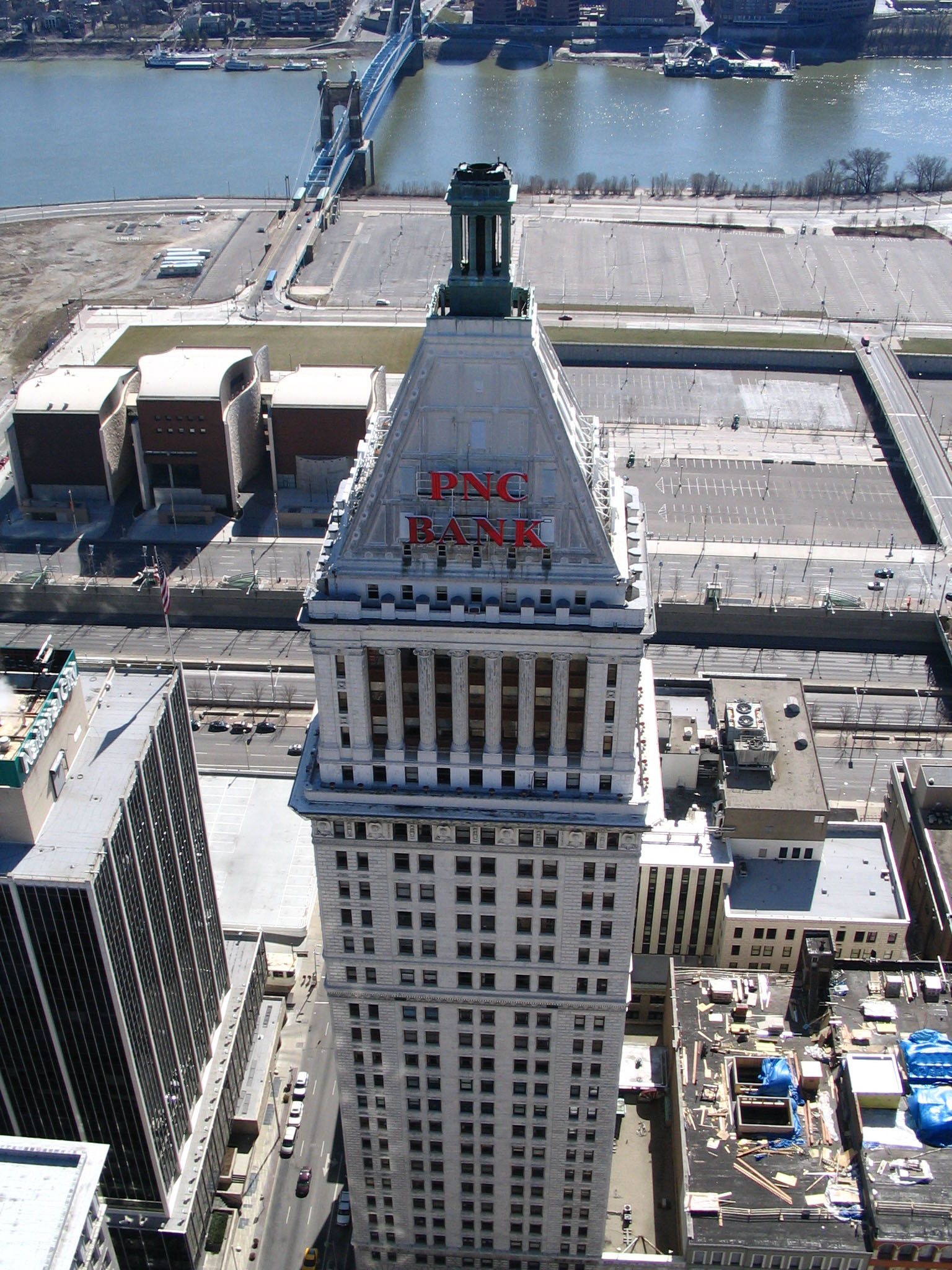 Shot of the PNC Tower as viewed from the top of the Carew Tower in Cincinnati. Photo shot by Mike Taylor (Sunkorg), 2006-February-26